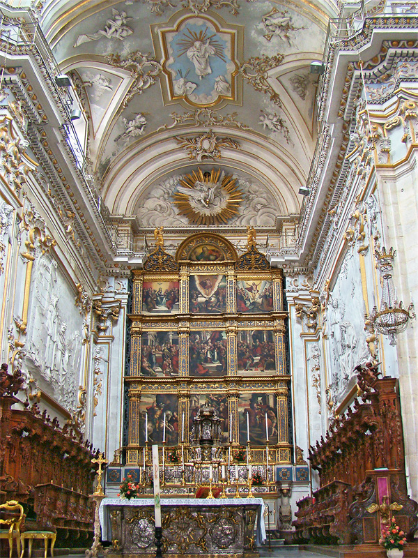 Cathedral of San Giorgio, Modica, Sicily, Italy. The sanctuary.